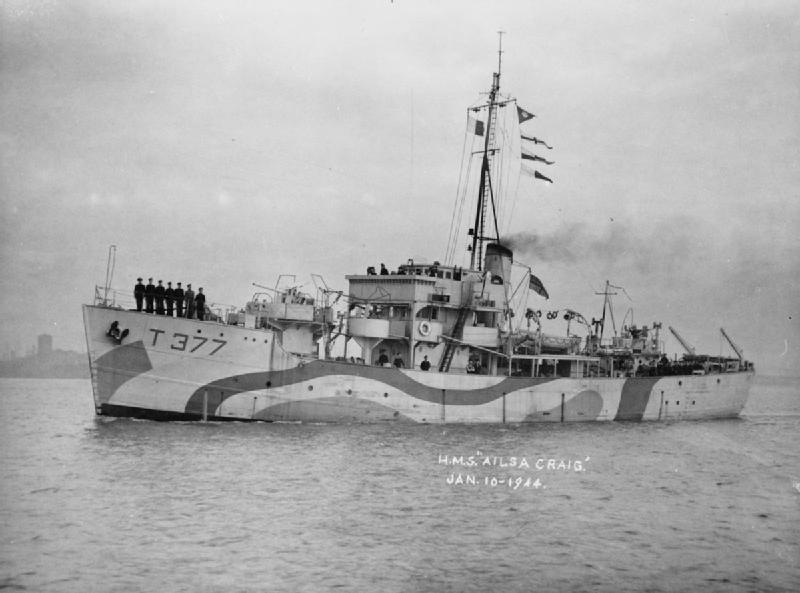 Photograph of British Isles class naval trawler HMT Ailsa Craig.